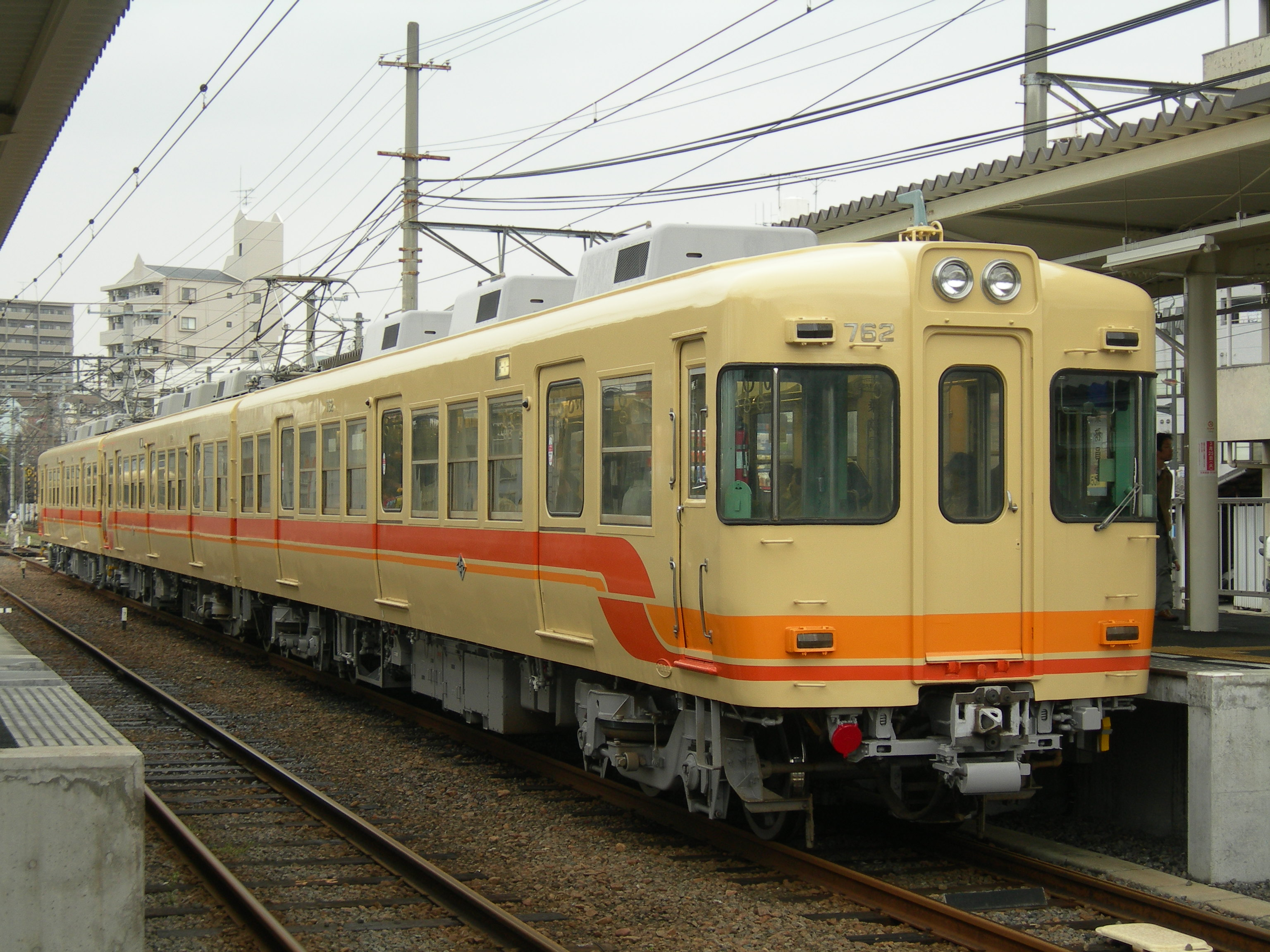 Iyotetsu 700 series EMU set 722 at Komachi Station